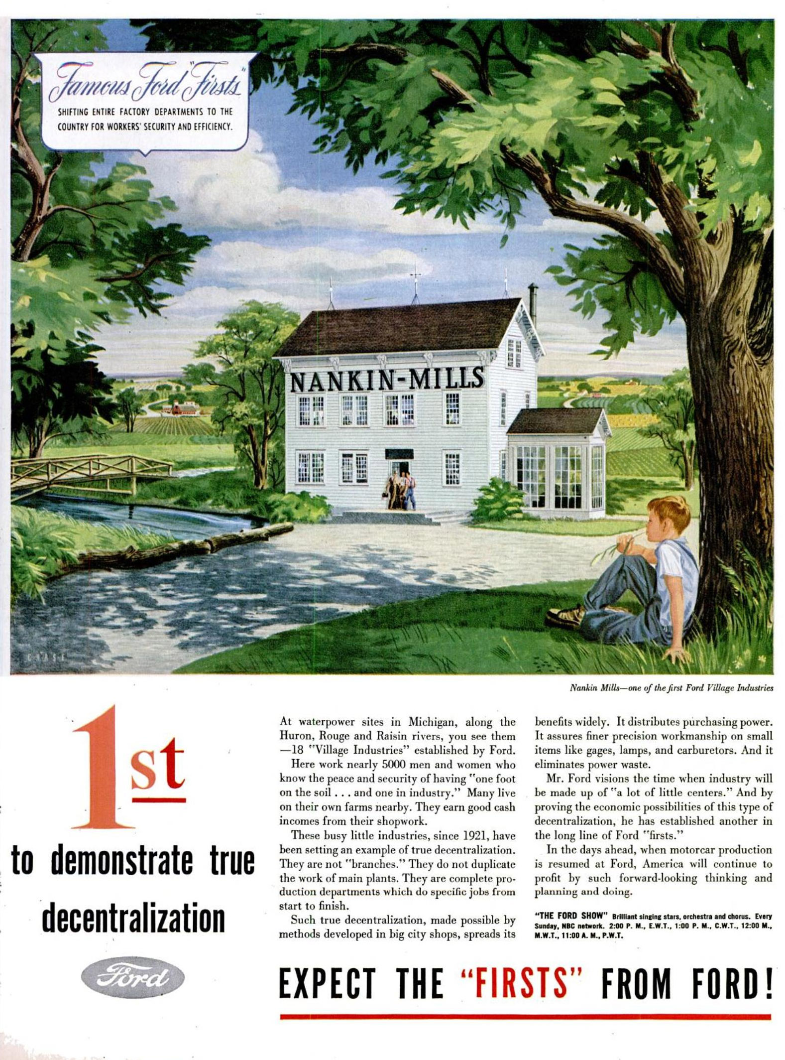 Ford advertisement